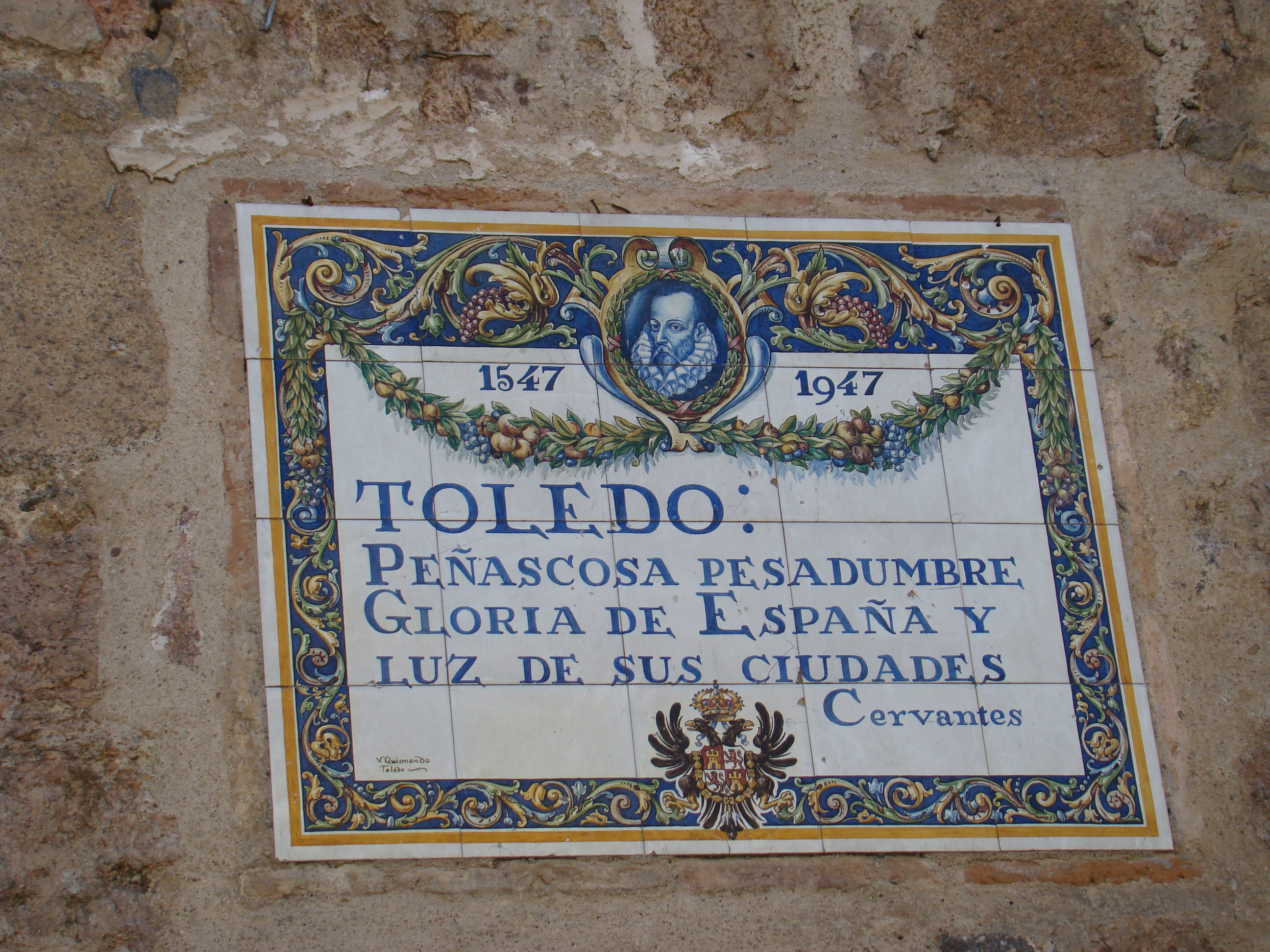 Plate in honor of Miguel de Cervantes at a street in Toledo (Spain).